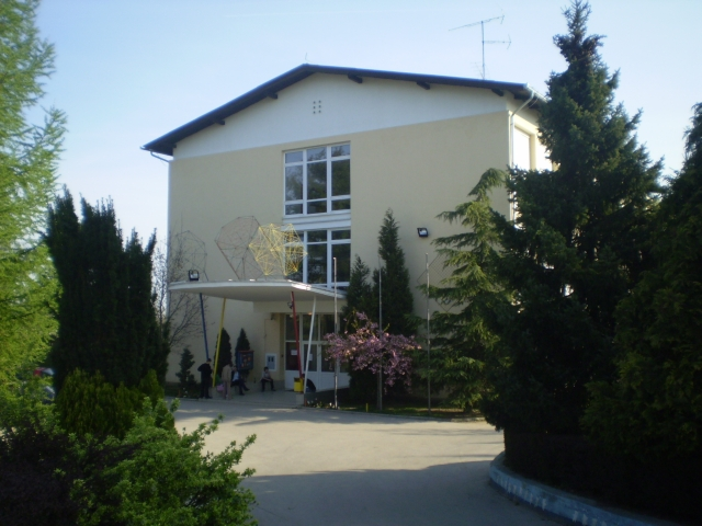 Osnovna škola Ivan Goran Kovačić, Sveti Juraj na bregu